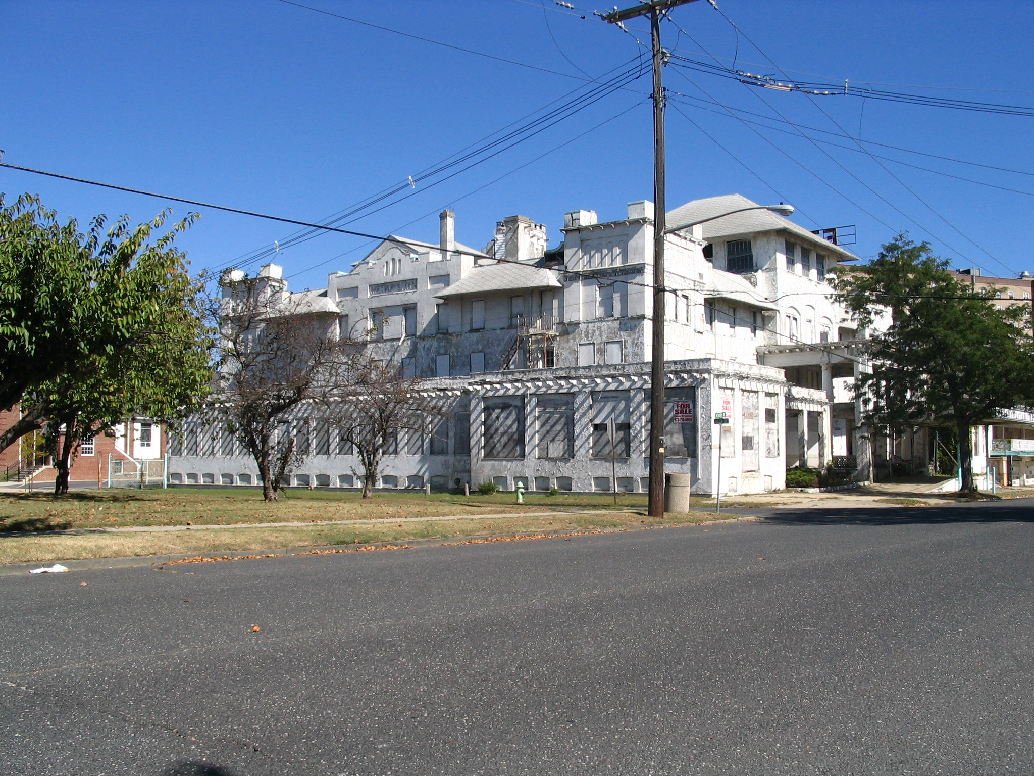 East view of Metropolitan hotel, Asbury Park, NJ before it's slated demolition